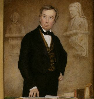 National Portrait Gallery. Black and White image on Plate 6 of Gittings, Robert. John Keats. Oxford: Alden Press, 1968.